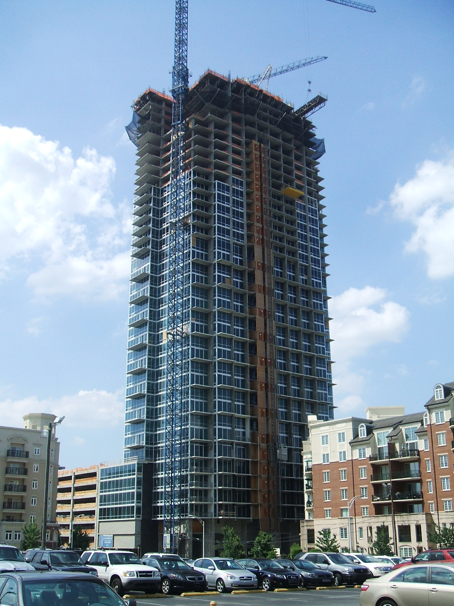 Construction photo of The Vue.